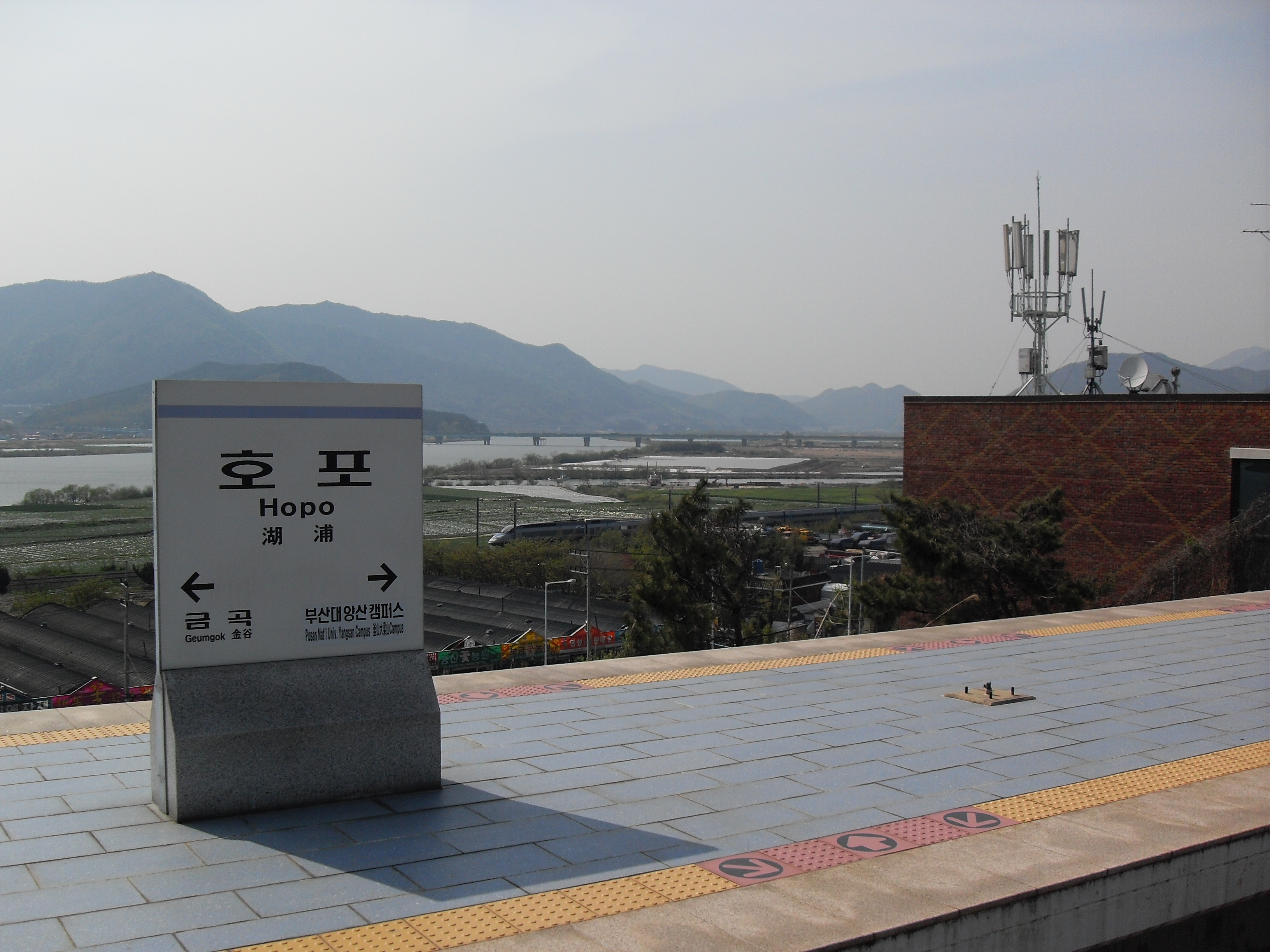 Not using Hopo Station platform. There is a KTX train in Gyeongbu Line.